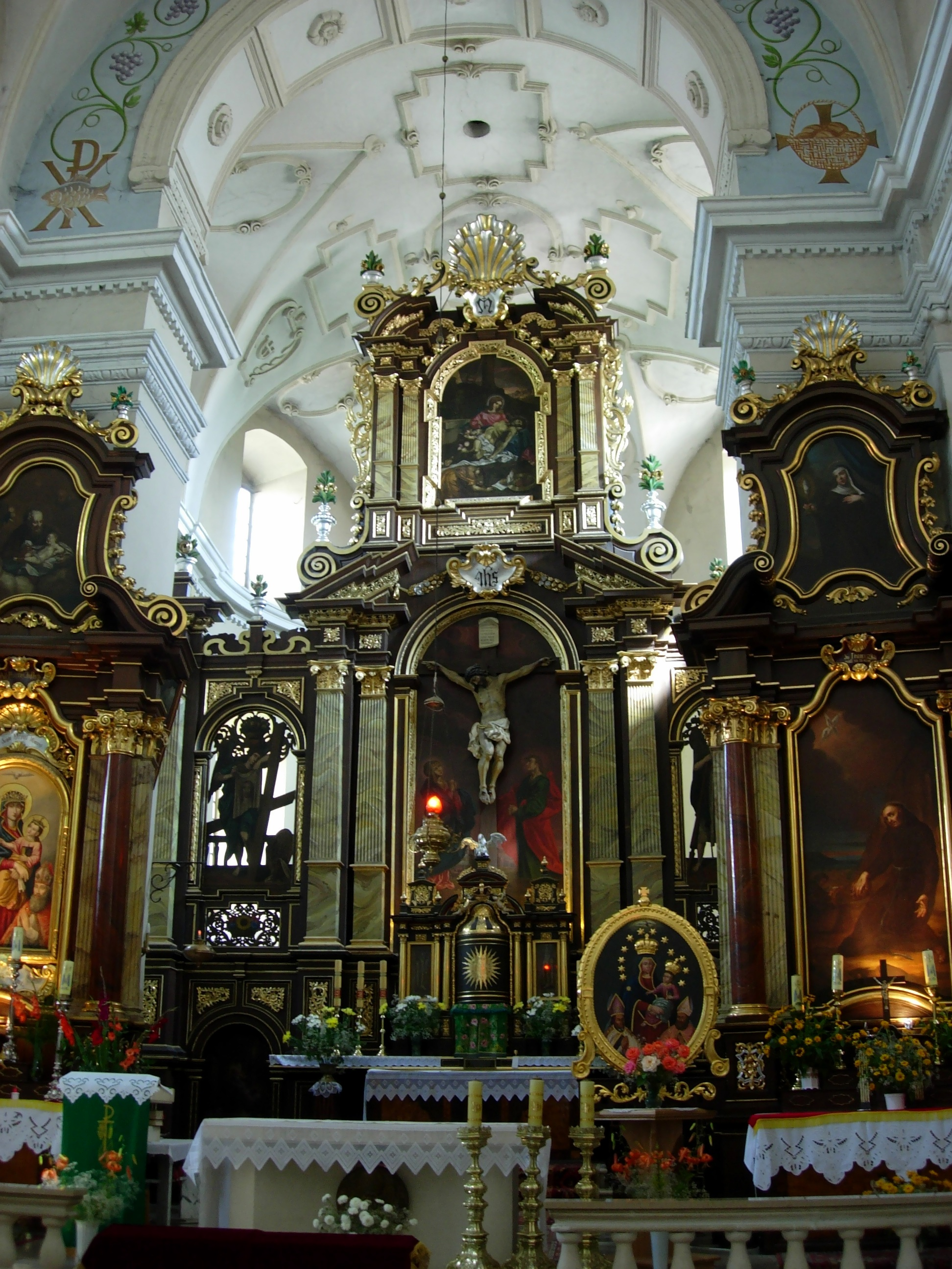 The altar of the Visitation of the Blessed Virgin Mary Church in Pińczów